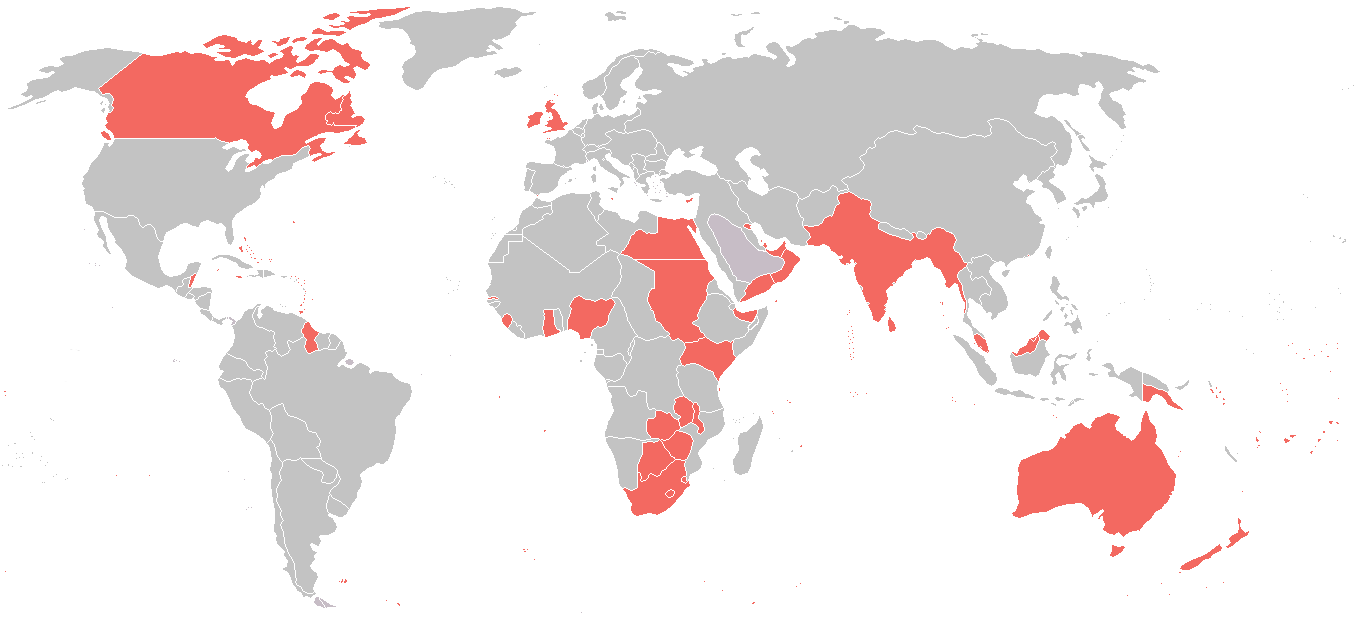 A map of the British Empire as it was in 1914, just before the outbreak of the First World War.